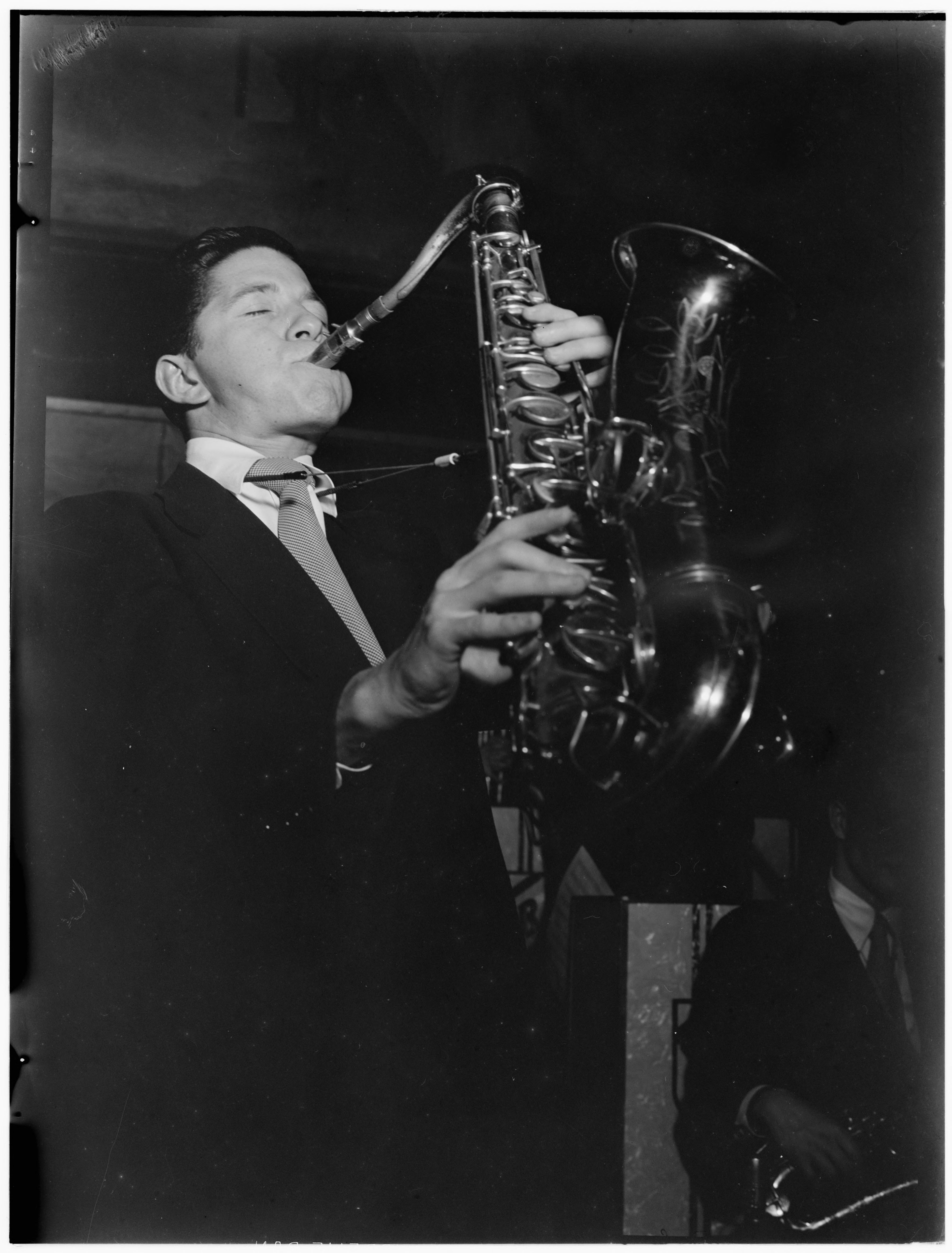 Gottlieb, William P., 1917-, photographer. [Portrait of Allen Eager, Arcadia Ballroom, New York, N.Y., ca. May 1947] 1 negative : b&w ; 3 1/4 x 4 1/4 in. Notes: Gottlieb Collection Assignment No. 117 Reference print available in Music Division, Library of Congress. Purchase William P. Gottlieb Forms part of: William P. Gottlieb Collection (Library of Congress). Subjects: Eager, Allen Buddy Rich Band Jazz musicians--1940-1950. Saxophonists--1940-1950. Arcadia Ballroom Format: Portrait photographs--1940-1950. Film negatives--1940-1950. Rights Info: Mr. Gottlieb has dedicated these works to the public domain, but rights of privacy and publicity may apply. Repository: (negative) Library of Congress, Prints & Photographs Division, Washington D.C. 20540 USA, (reference print) Library of Congress, Music Division, Washington D.C. 20540 USA, Part Of: William P. Gottlieb Collection (DLC) 99-401005 General information about the Gottlieb Collection is available at Persistent URL: Call Number: LC-GLB23- 0217 This work is from the William P. Gottlieb collection at the Library of Congress. Rights and restrictions.In accordance with the wishes of William Gottlieb, the photographs in this collection entered into the public domain on February 16, 2010.